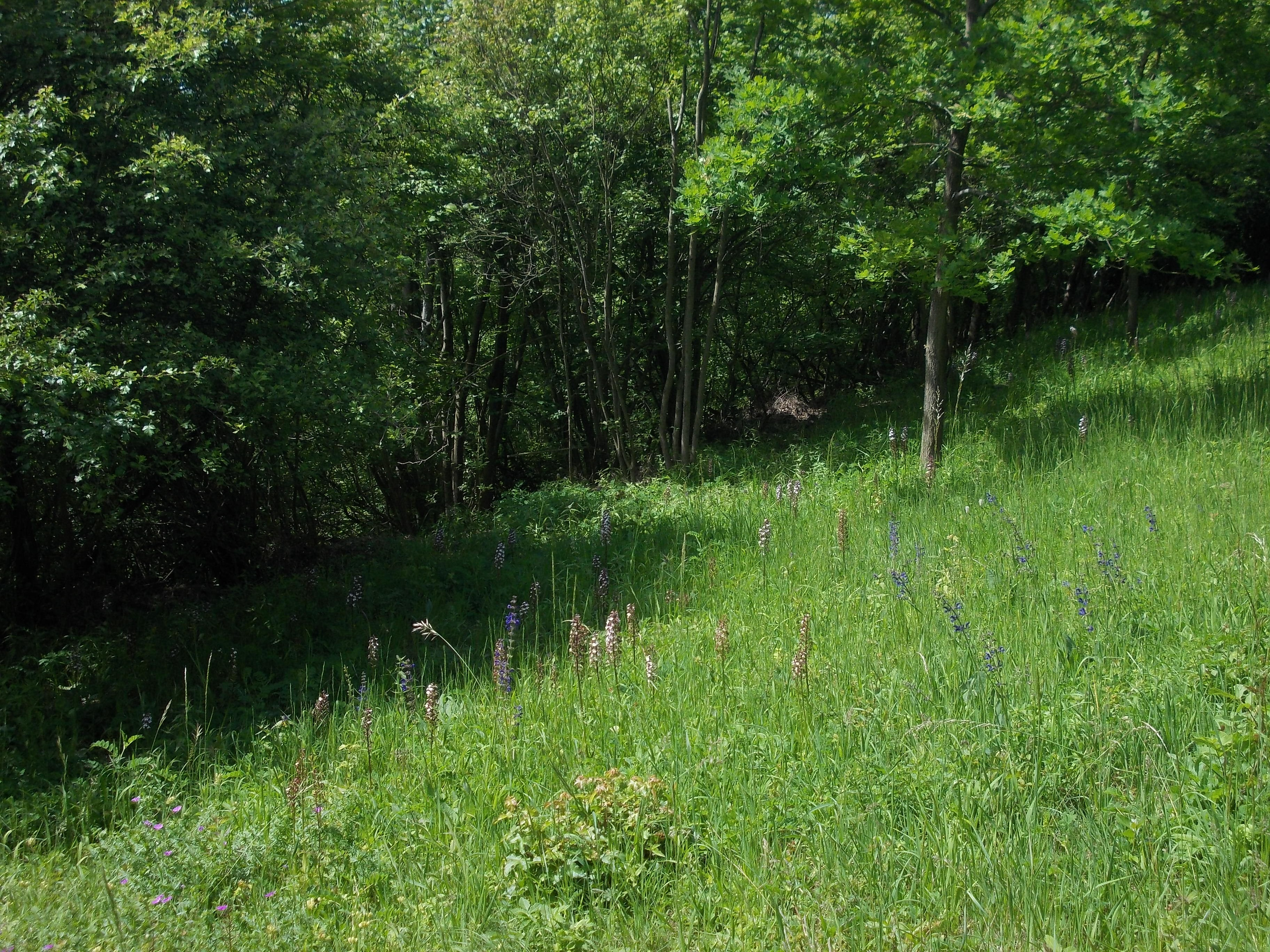 On the orchid trail in the Tote Täler ("Dead Valleys") nature reserve in the Burgenlandkreis (Saxony-Anhalt)